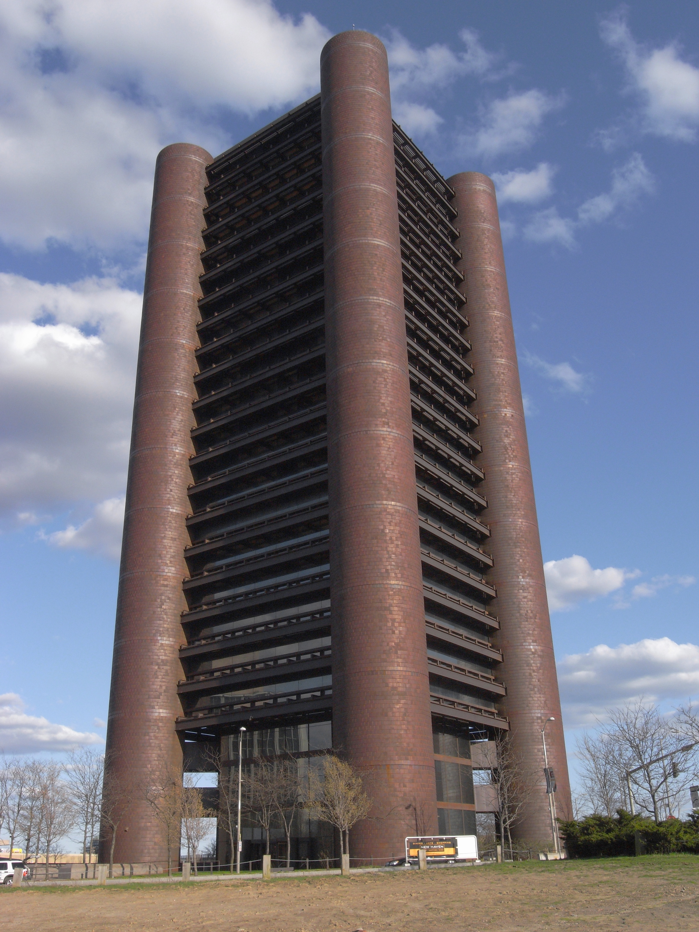 K of C headquarters in New Haven, Connecticut architects: Kevin Roche & John Dinkeloo